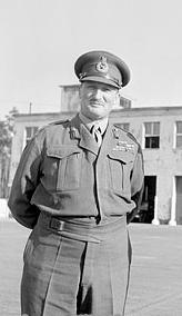 Portrait of Sir Charles Keightley in March 1949. Downloaded from the Imperial War Museum Website. Author: Taken by an official photographer; site says "Ministry of Defence Second World War II Official Collection". IWM website asserts Crown Copyright applies. However as a work for the British Government completed prior to 1955 this may not be the case.